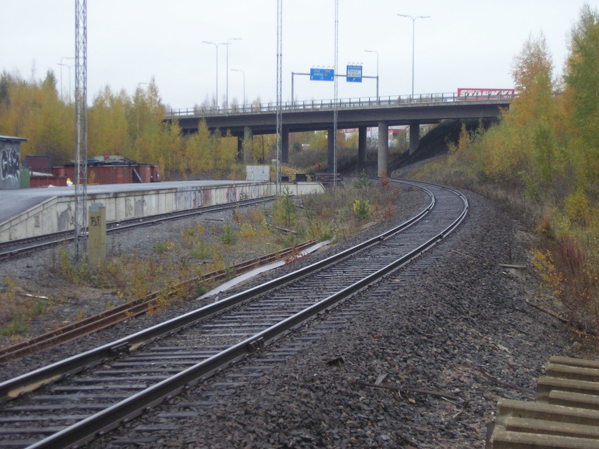 Jyväskylä–Haapajärvi-track in Tourula, Jyväskylä, Finland